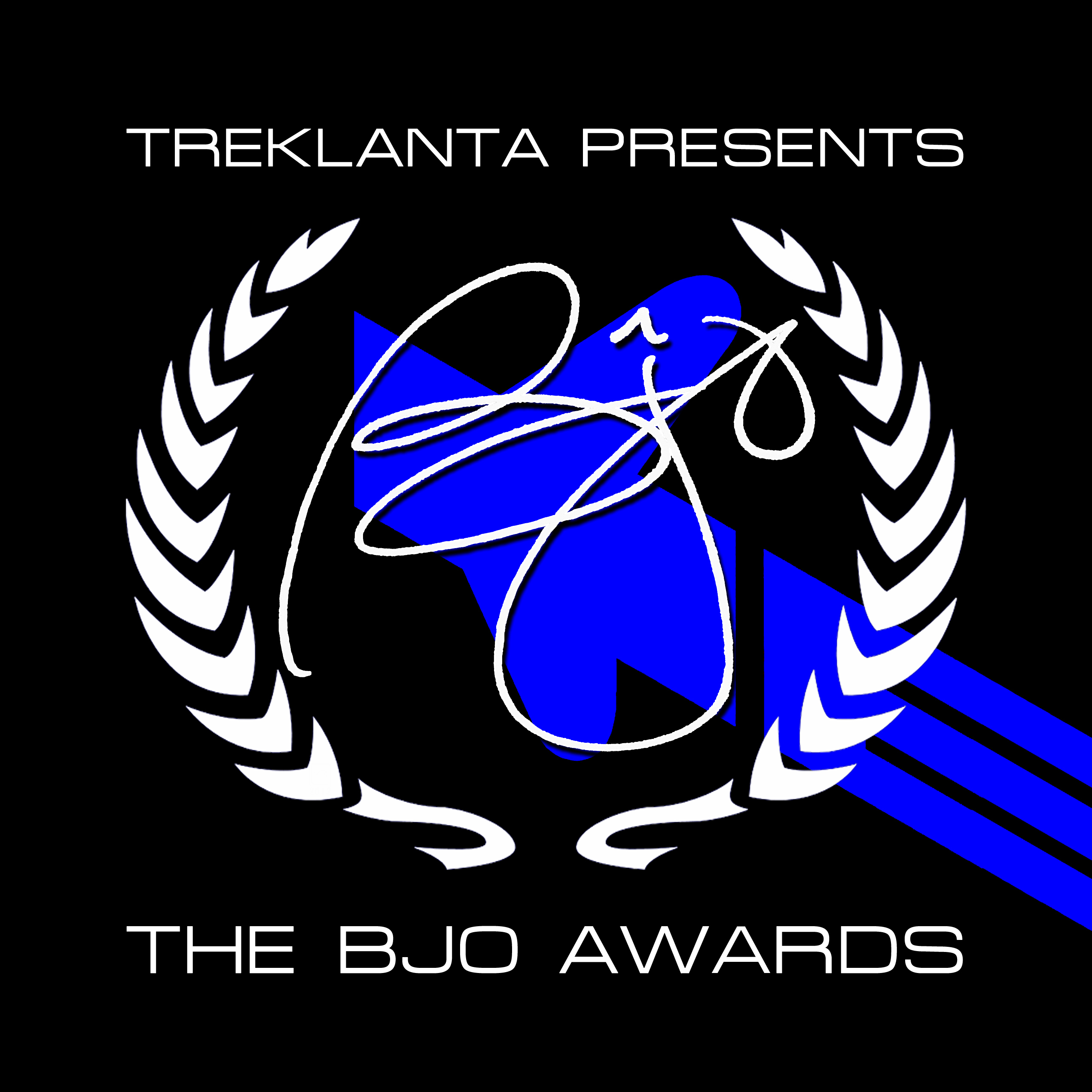 This is the logo for The Bjo Awards. It is comprised of Bjo Trimble's first name signature and a set of laurels in white and an arrowhead graphic in blue centered on a black background, with "TREKLANTA PRESENTS" and "THE BJO AWARDS" both in white text set above and below, respectively, the graphic elements.